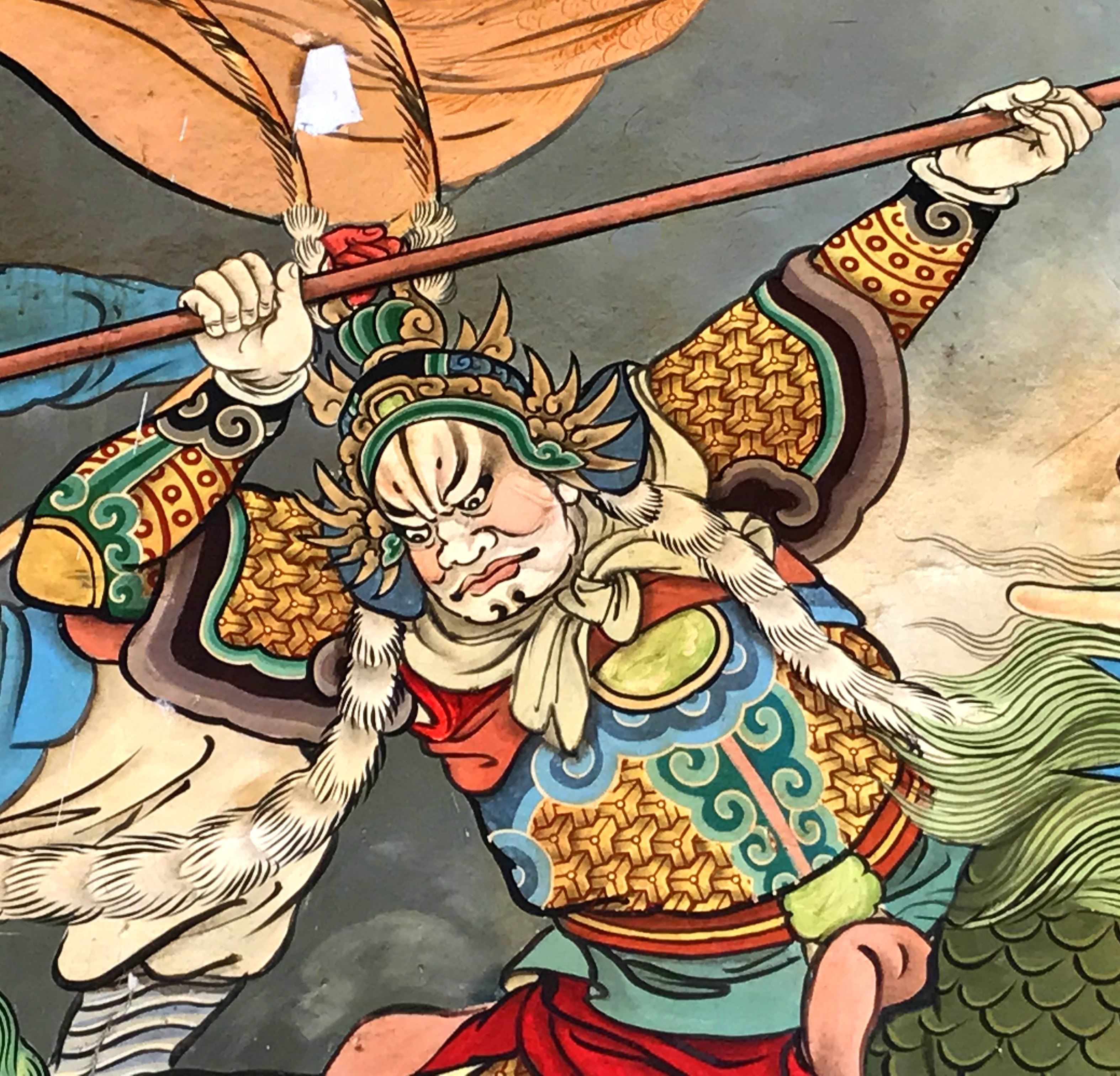 Dalongdong Baoan Temple (Chinese: 大龍峒保安宮; Pe̍h-ōe-jī: Tōa-lông-pōng Pó-an-kiong) also known as the Taipei Baoan Temple (臺北保安宮) is a Taiwanese folk religion temple built in the Datong District, Taipei, Taiwan. The present temple was originally built by clan members in Tong'an, Xiamen, Fujian, who immigrated to Taipei in the early 19th century and gave the temple the name Po-an (保安; Pó-an) in order to "protect those of Tong'an" (保佑同安). The Taipei Confucius Temple is located adjacent to the Baoan Temple.